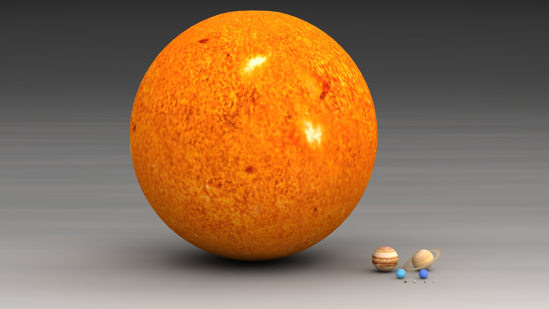 Planets and sun size comparison.